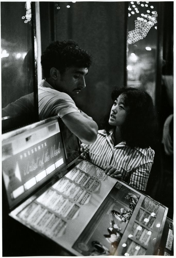 Accession Number: 2007:0275:0088 Maker: James Jowers (American b. 1938) Title: Mulberry st. Date: 1969 Medium: gelatin silver print Dimensions: Image: 23.7 x 16.1 cm Overall: 25.2 x 20.4 cm George Eastman House Collection General – information about the George Eastman House Photography Collection is available at For information on obtaining reproductions go to